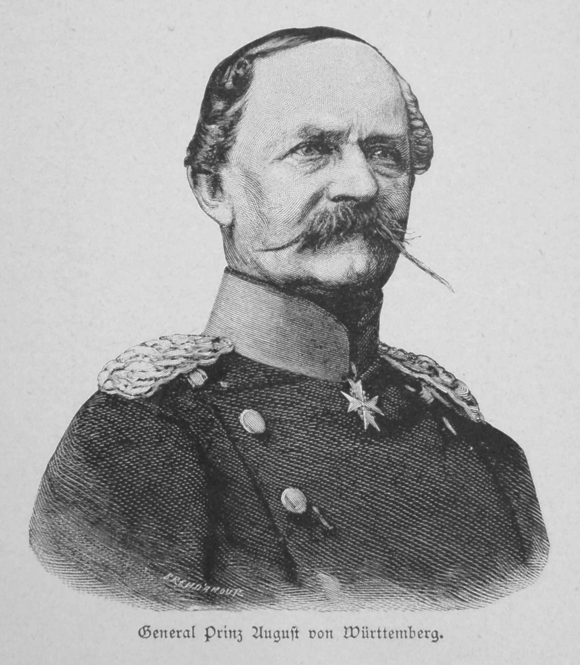 prince August von Württemberg